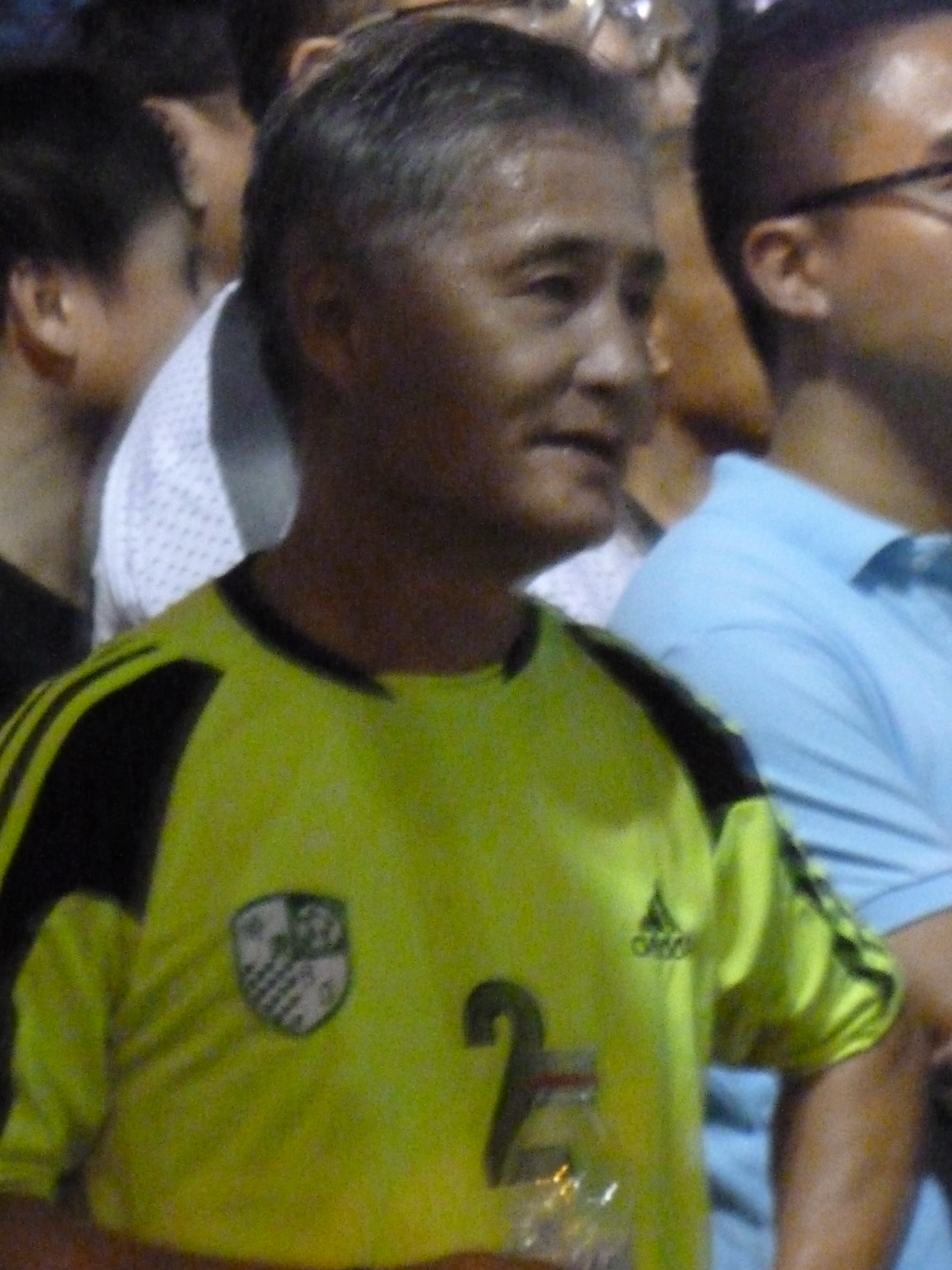 Leung Nang Yan (16 Aug 2015, memorial matches of Wu Kwok Hung, Macpherson Playground) 中文（香港）: 梁能仁 (16 Aug 2015, 胡國雄紀念賽, 麥花臣遊樂場)